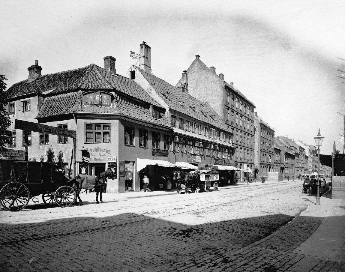 Sprte Hest in Copenhagen, Denmark